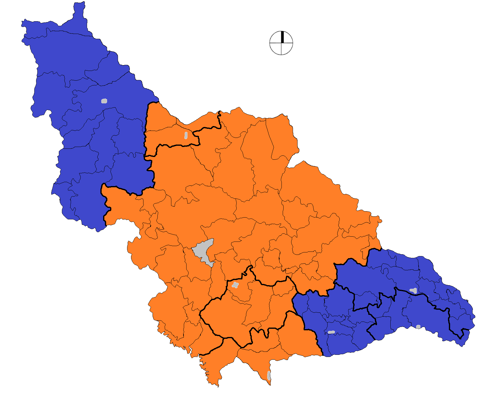 ELECTORAL 2011 Santa Rosa de Osos